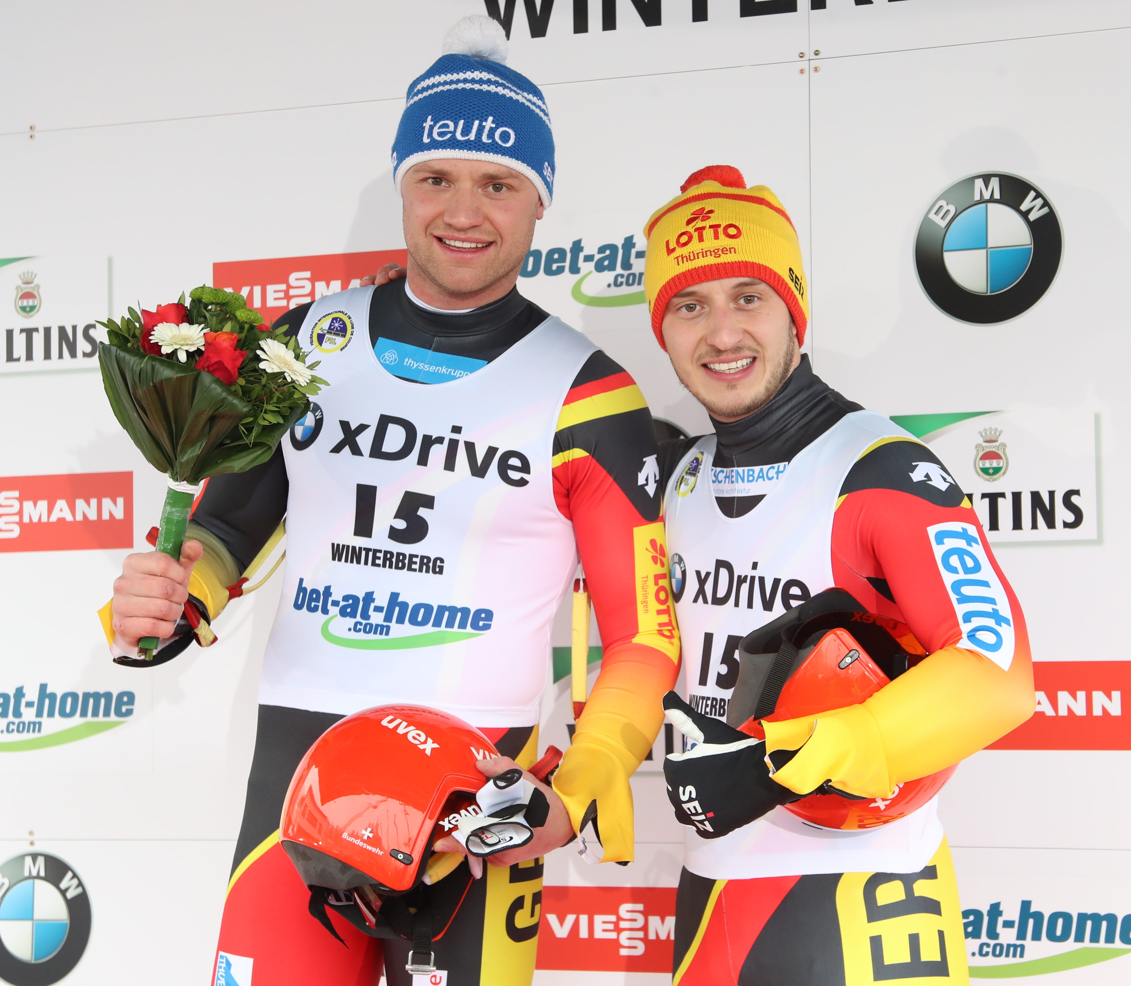 Doubles Sprint World Championships at the FIL World Luge Championships 2019 in Winterberg